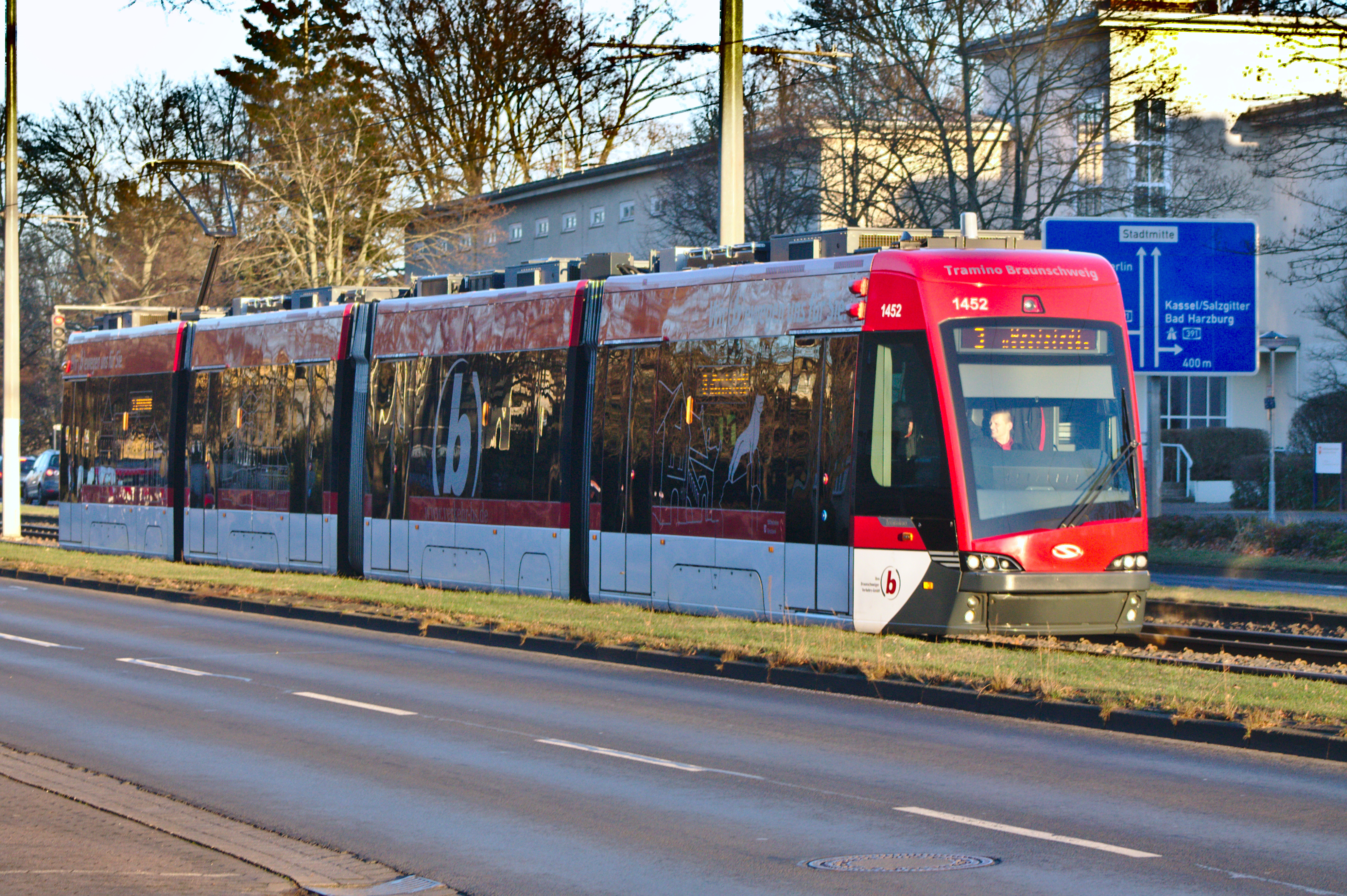 Car #1452 of the Brunswick transit company (Braunschweiger Verkehrs-GmbH), a Solaris Tramino S110B, on route 3 (Volkmarode → Weststadt, Weserstraße) shortly after having left Emsstraße stop.